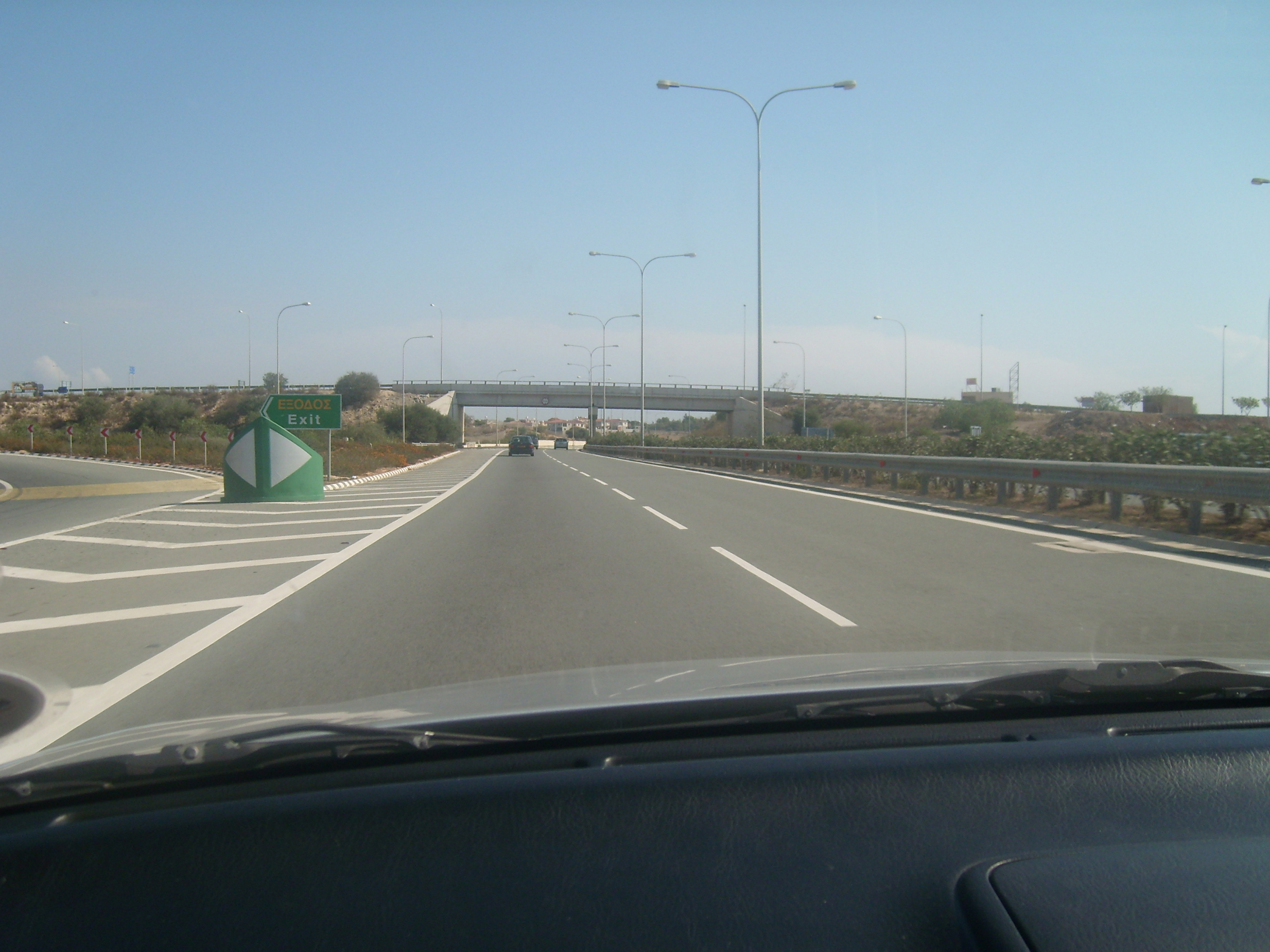 Motorway in Cyprus